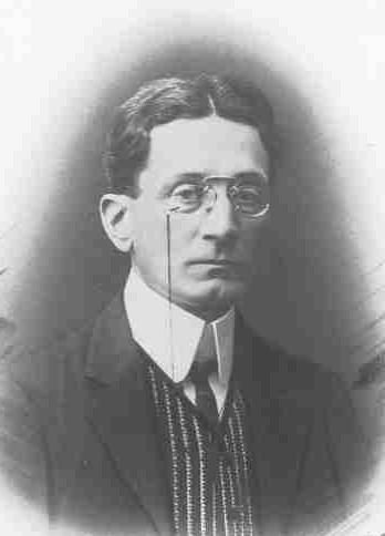 Cesare Poma's photo made by Rossetti (1900 Biella) Italy